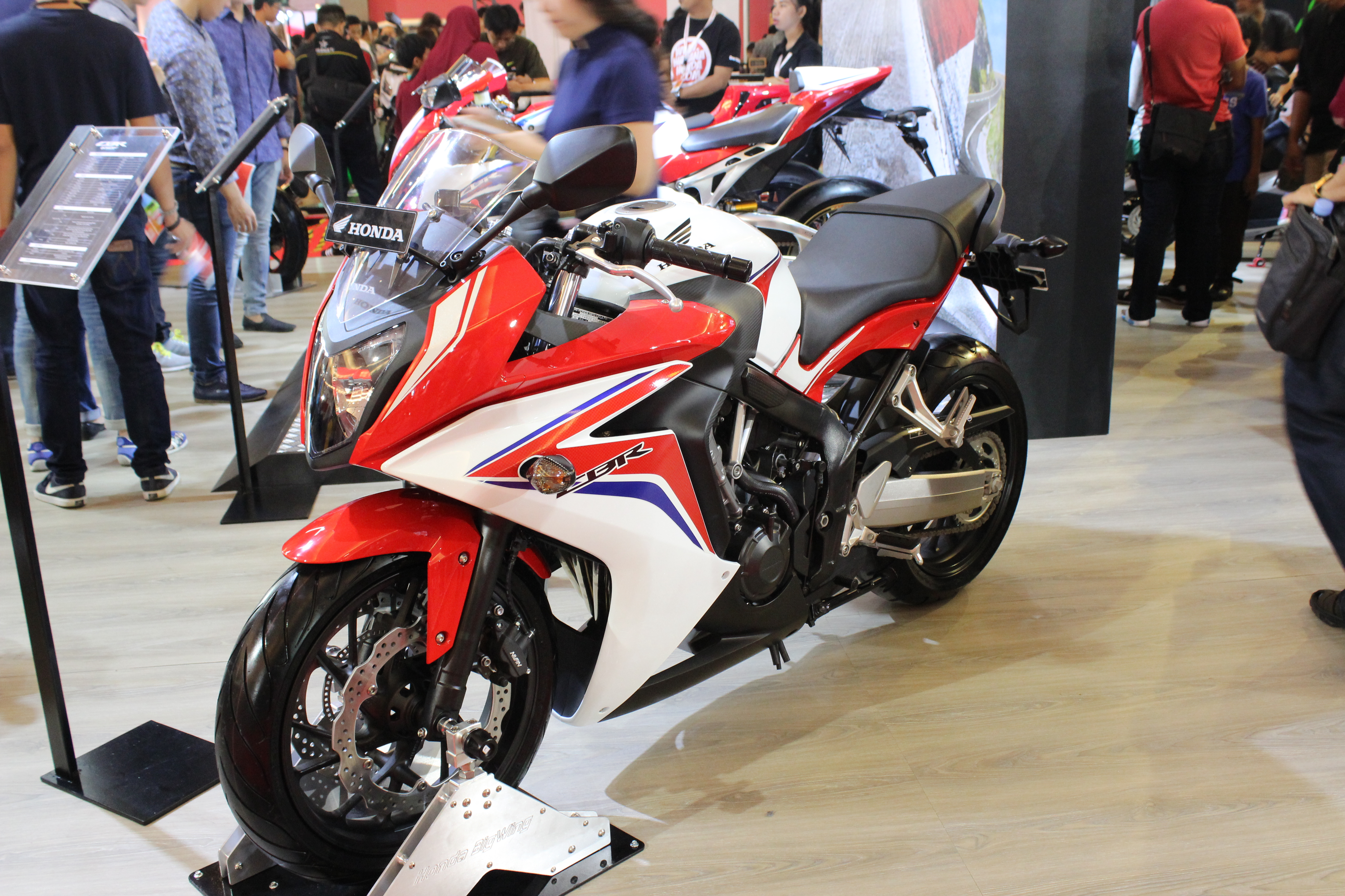 Honda CBR650F @ Indonesia International Motor Show 2016, Kemayoran, Jakarta, Indonesia